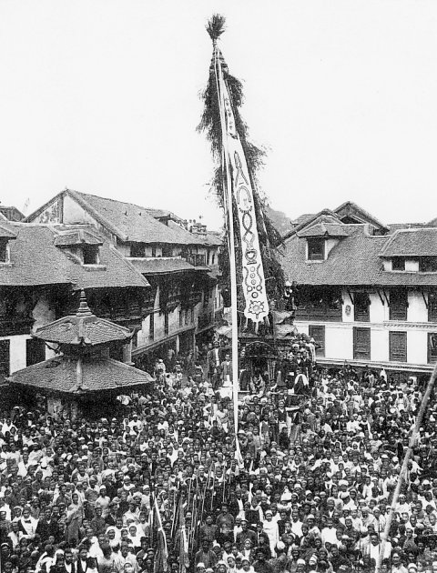 Kathmandu. Seto Machindranath festival